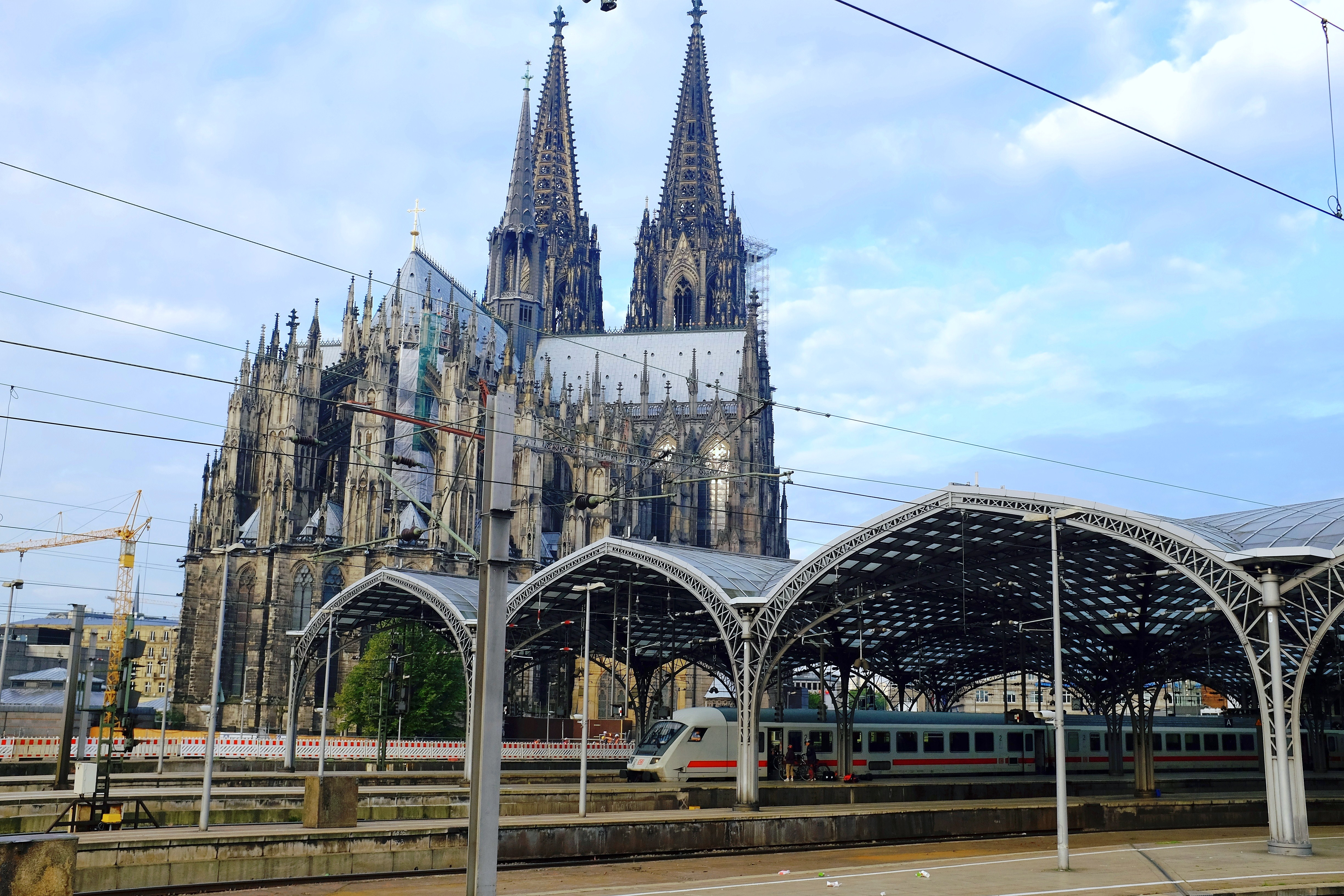 Not a bad view as you wait for your train!